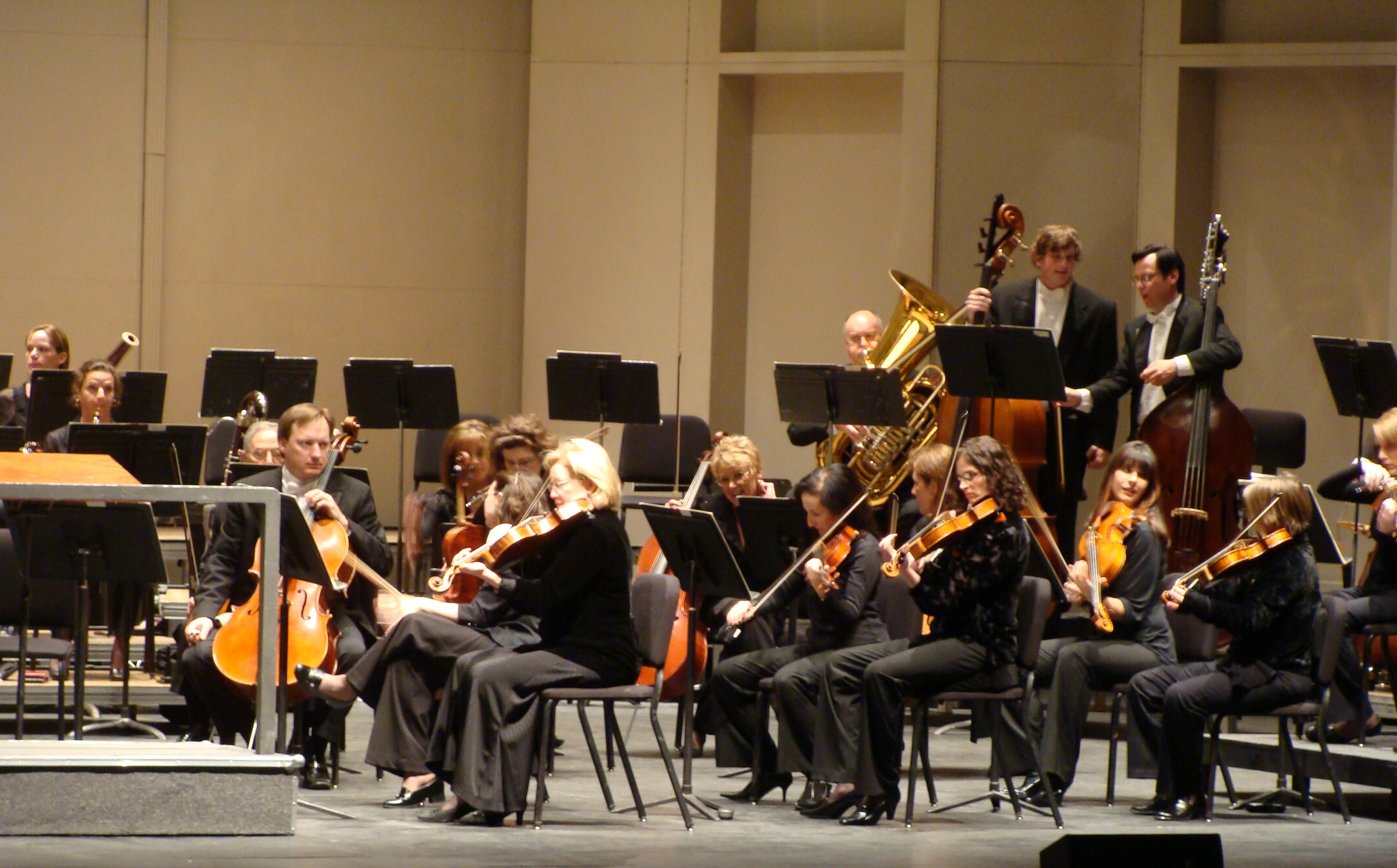 some members of SA Symphony rehearsing right before their performance with Sarah Chang.